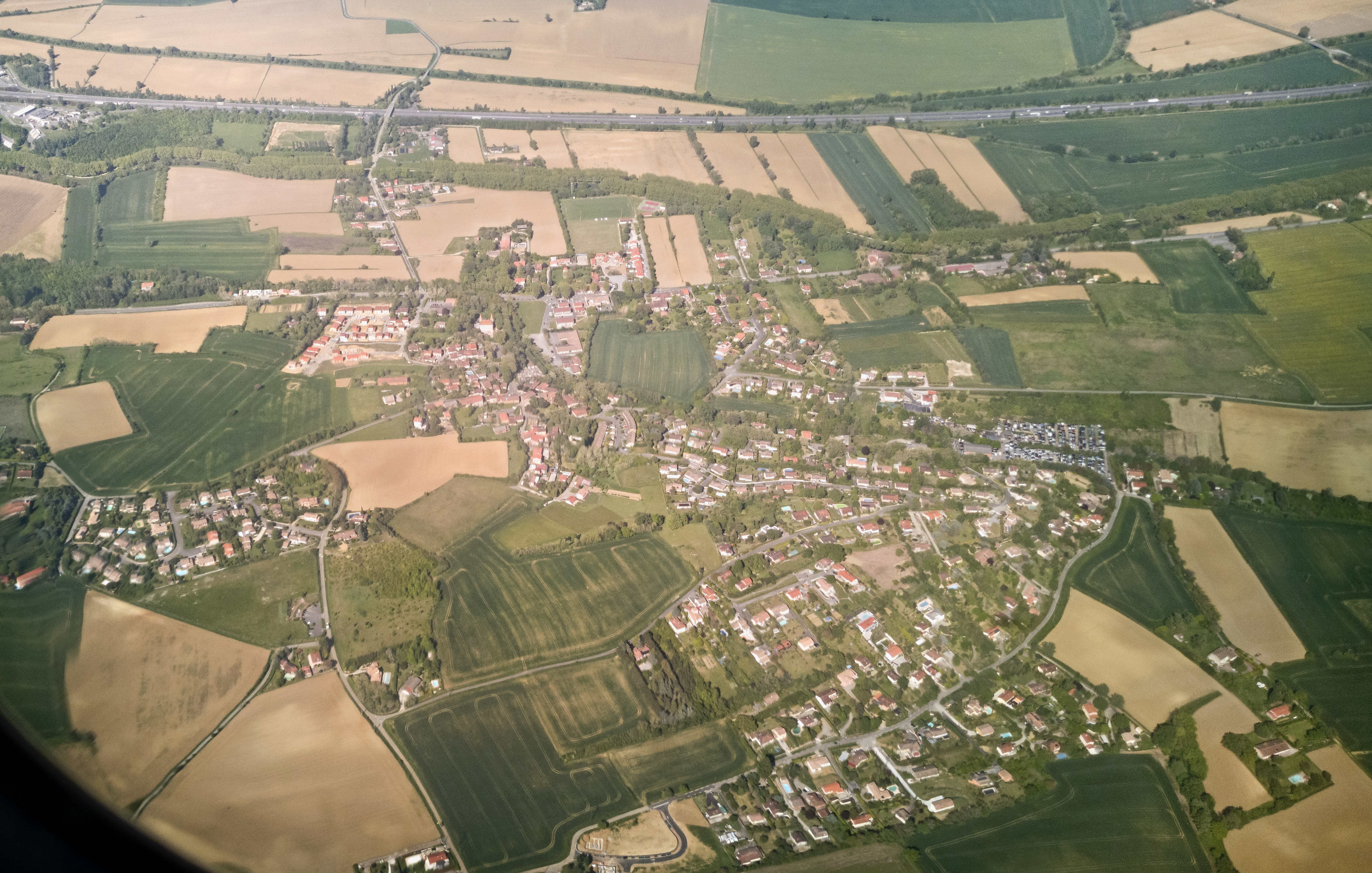 Aerial view of Donneville, Haute-Garonne France